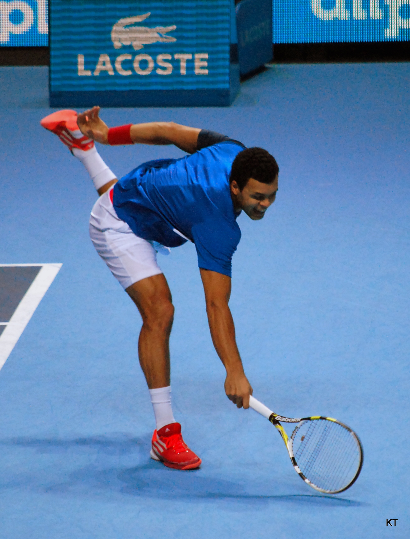 In his semi-final with Tomas Berdych. ATP World Tour Finals, the O2, London November 2011.